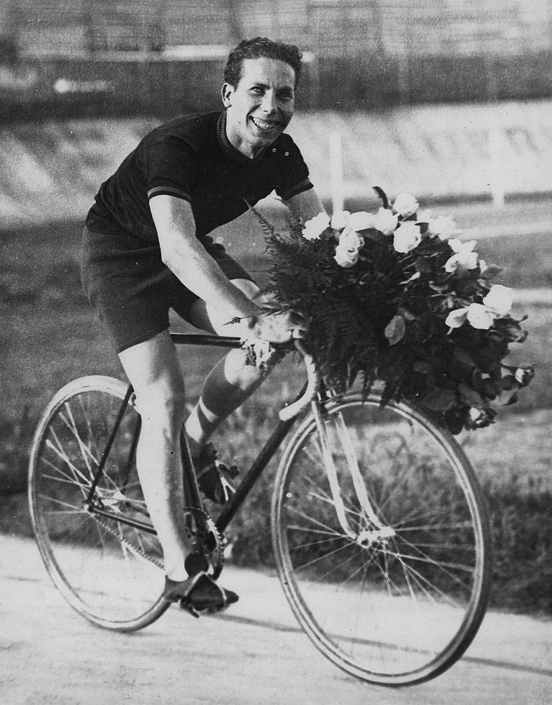 Portrait of the bicycle rider Ghilardi